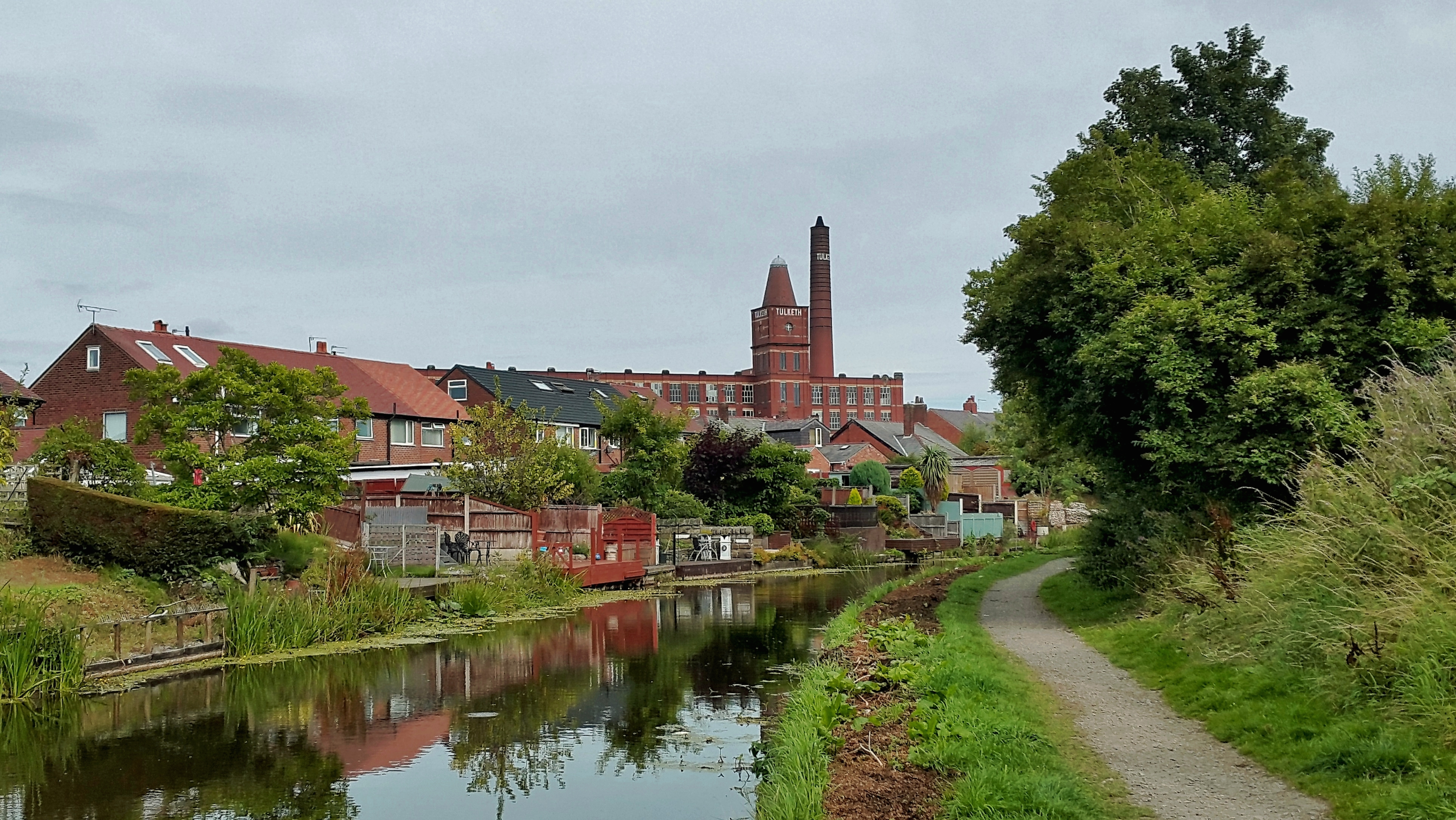 The historic Tulketh Mill and its chimney, as seen from the Lancaster Canal, Preston.